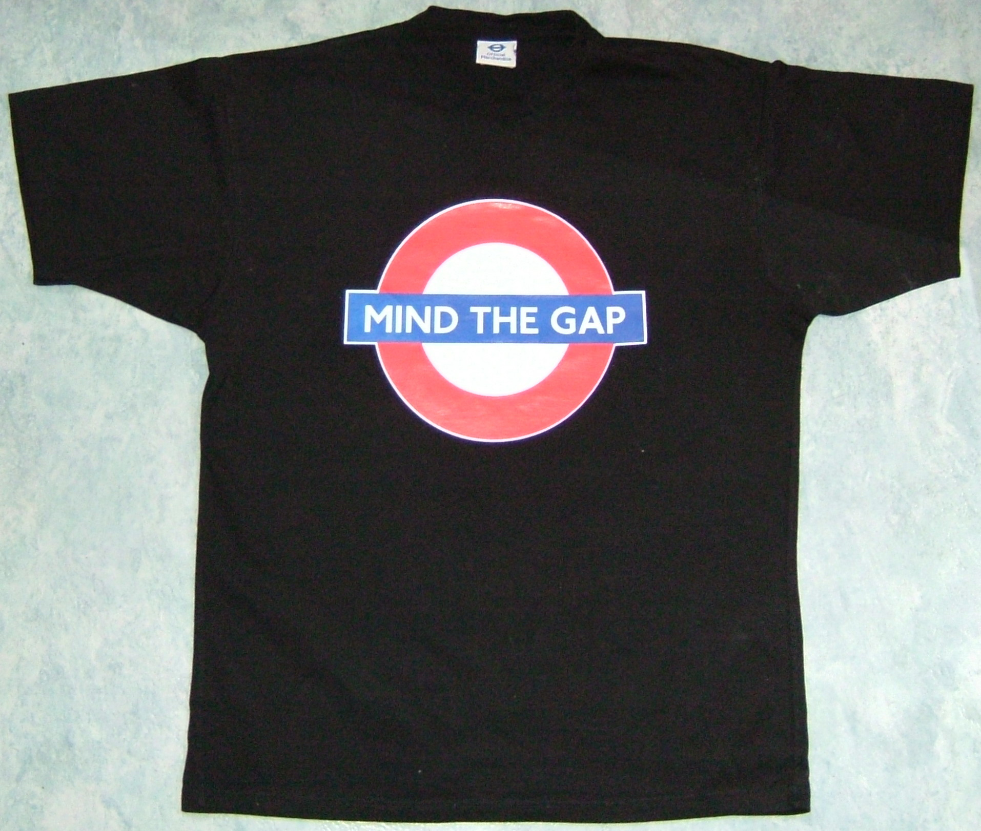 Picture of T-shirt "Mind the Gap"